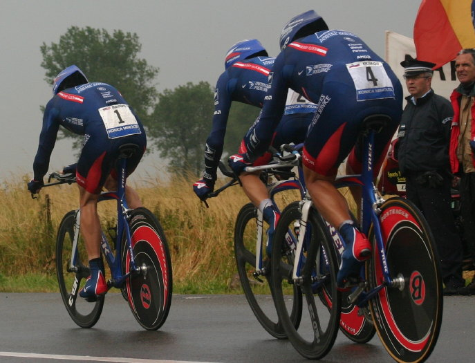 Lance Armstrong (left, #1) leads the U.S. Postal Service team in the 2004 Tour de France. Also visible are José Azevedo (#2, center) and Viatcheslav Ekimov (right, #4).